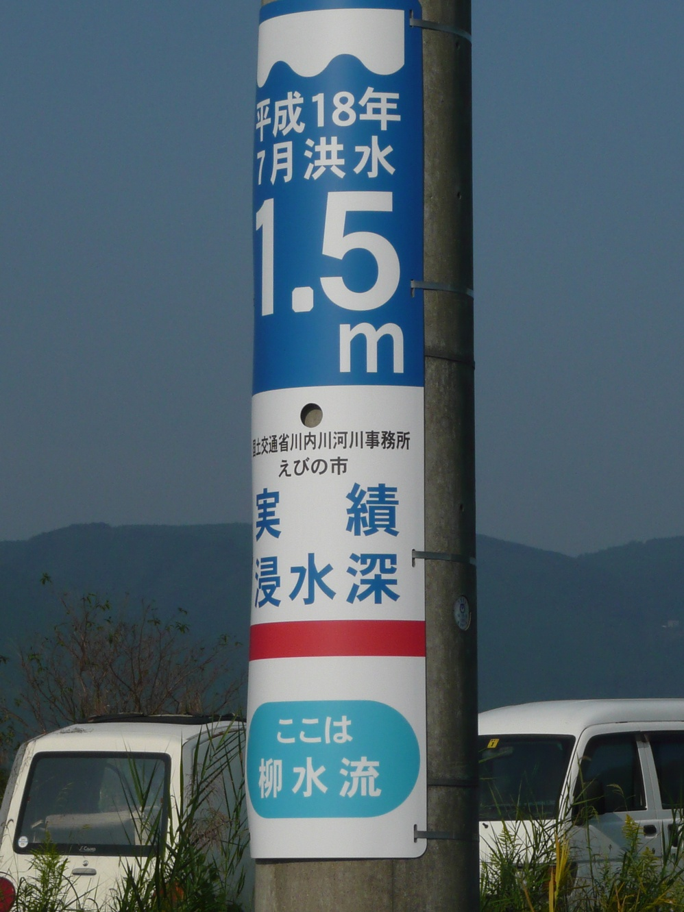 Heavy Rain on July, 2006 (Heisei 18 nen 7gatsu Gouu, Japan) In Yanagizuru, Ebino City, Miyazaki, it was flooded 1.5m.